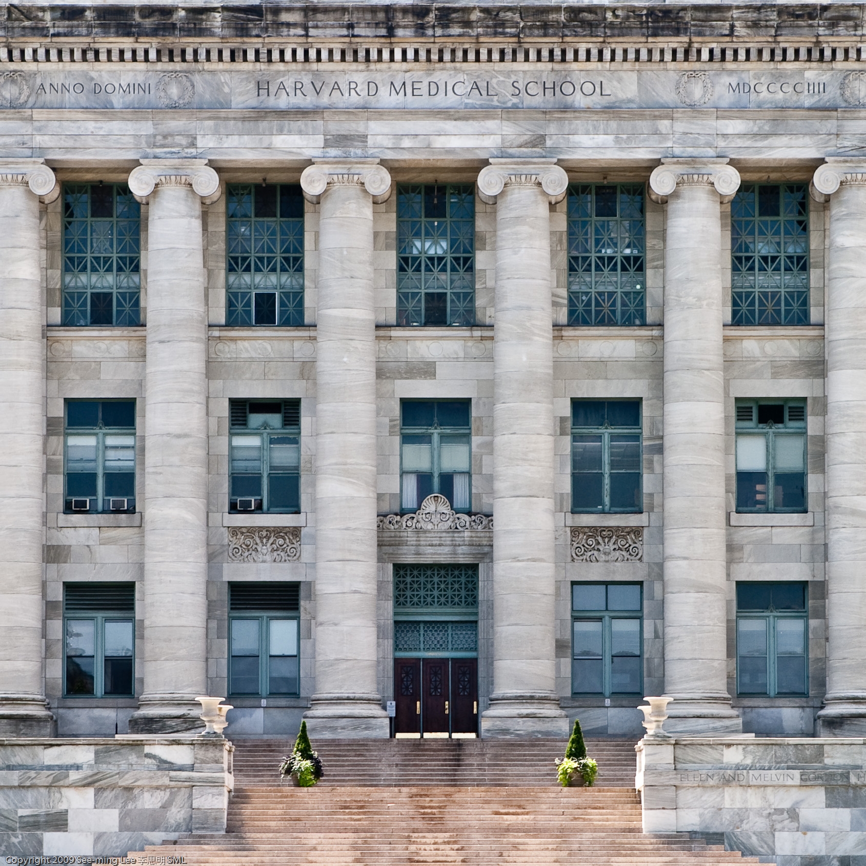 Gordon Hall, Harvard Medical School, Boston, MA